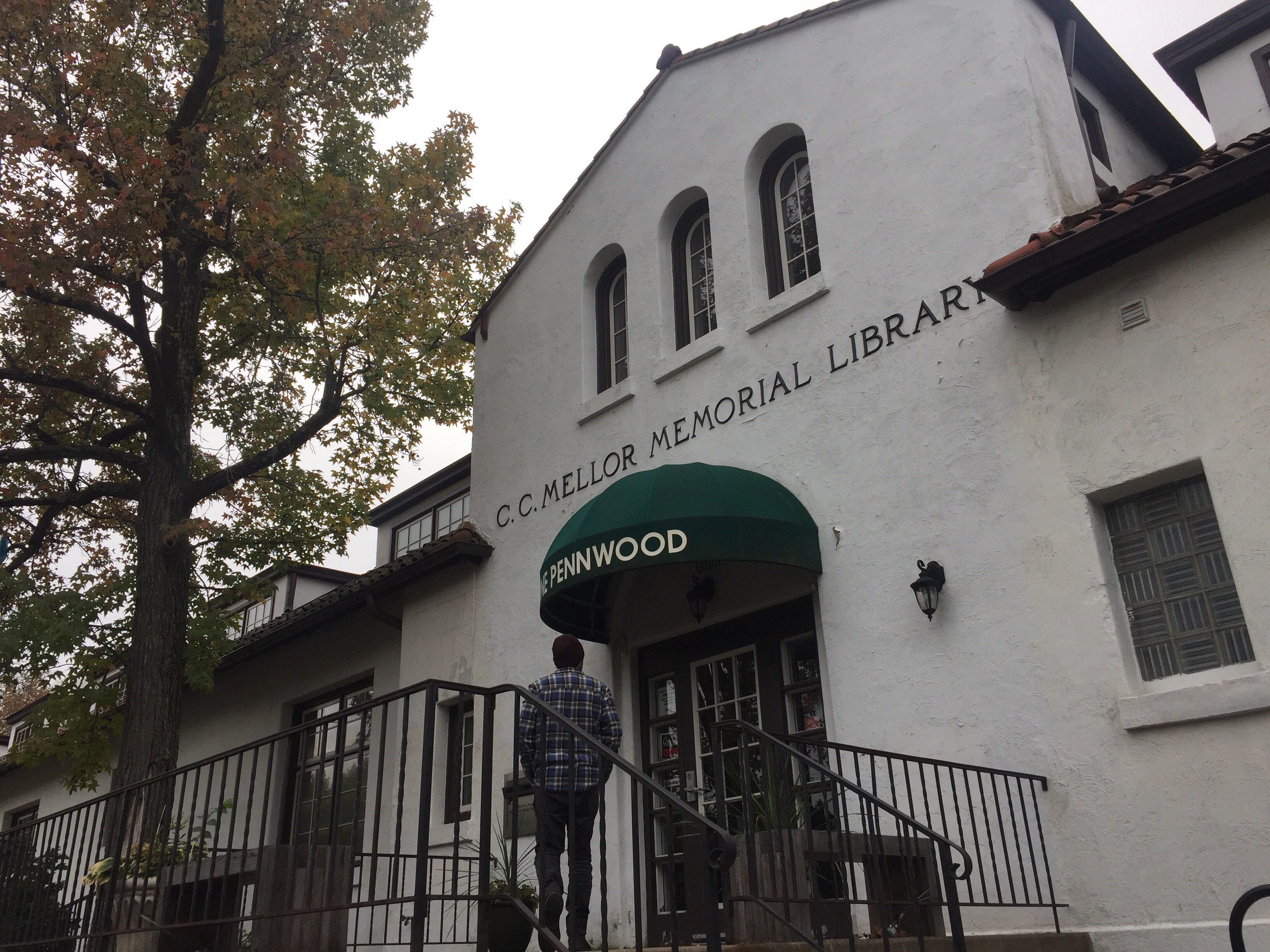 Pictured here is the entrance to the C.C. Mellor Memorial Library